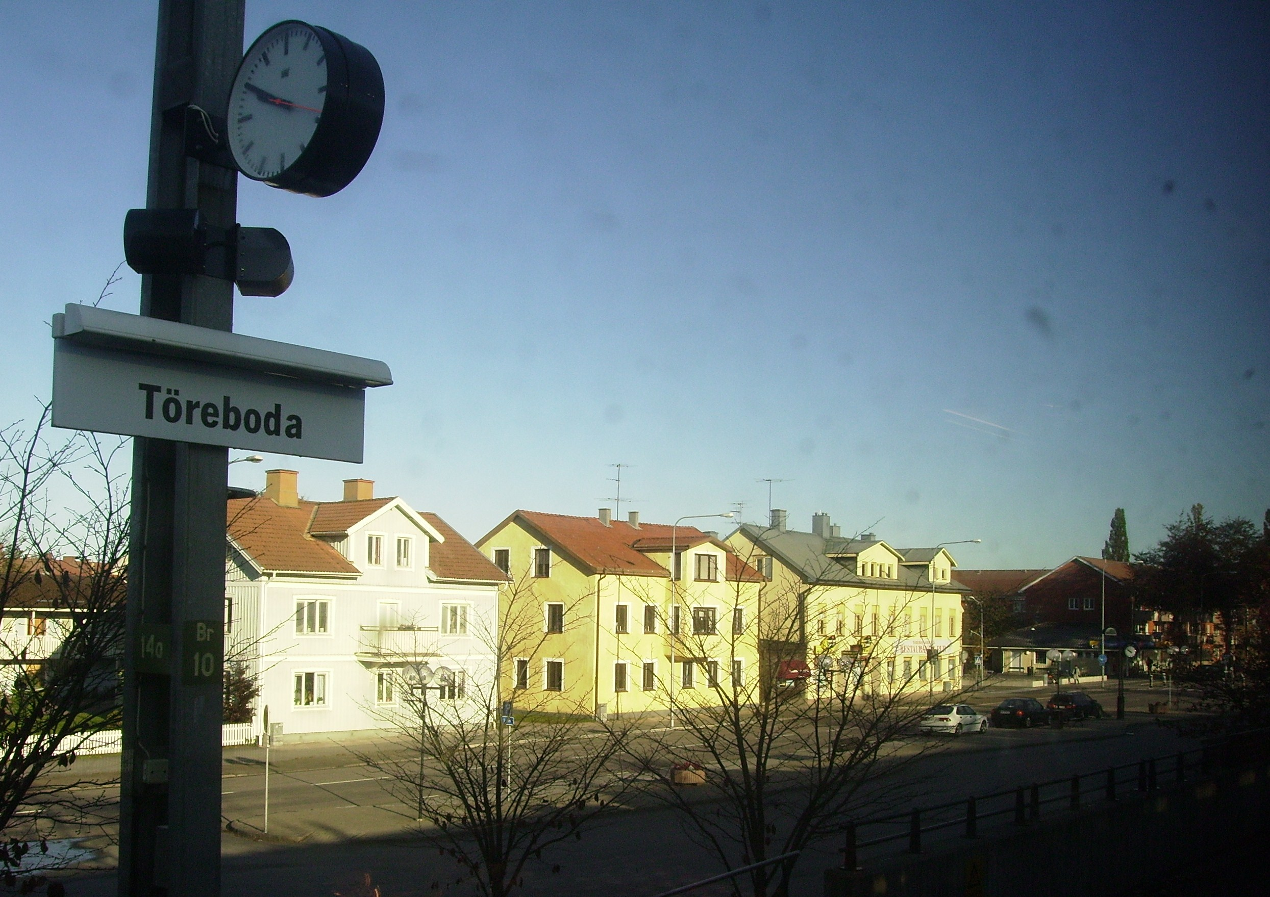 Picture of Töreboda in Västra Götaland